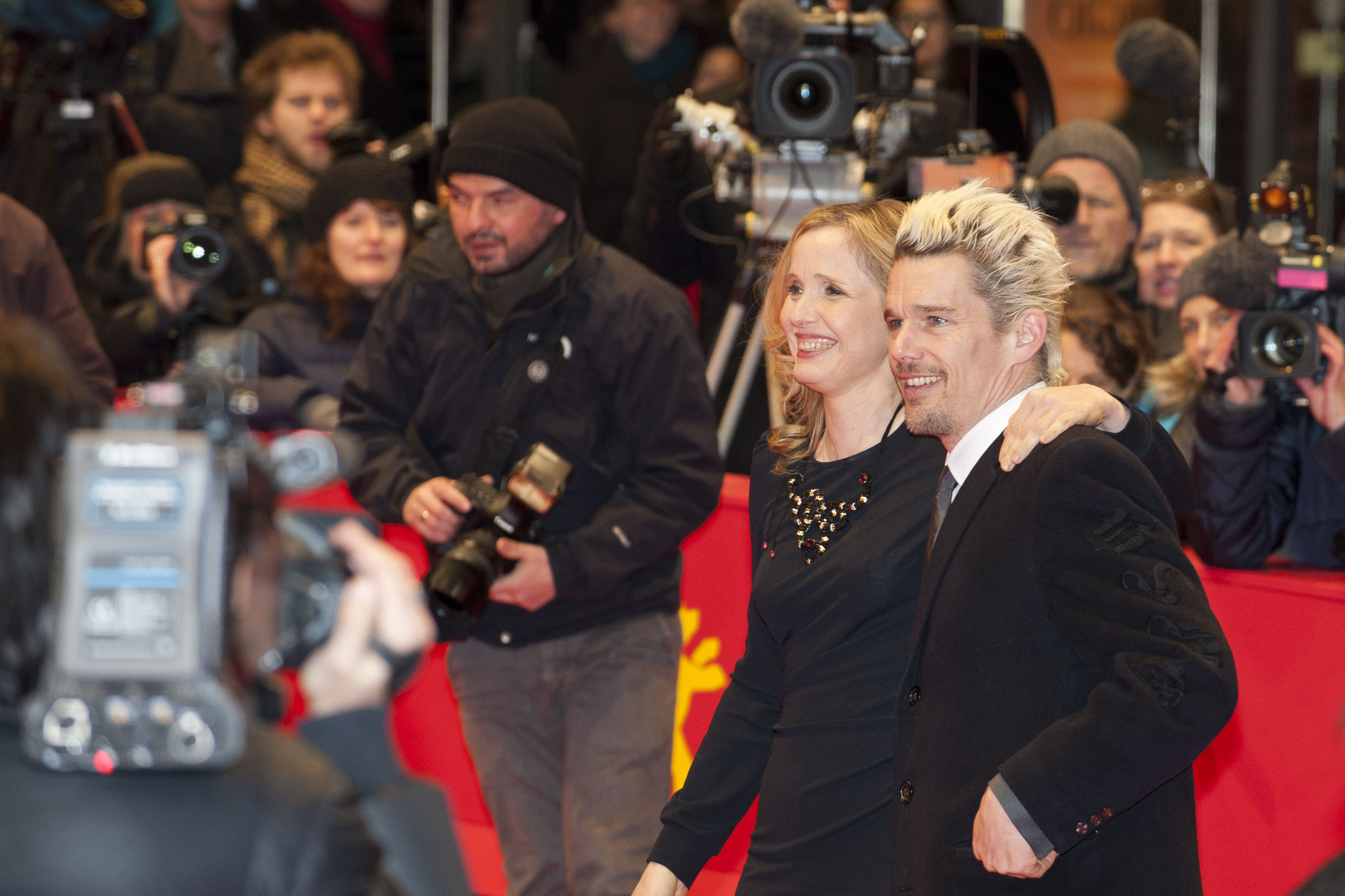 Julie Delpy and Ethan Hawke, red carpet for the premiere of "Before Midnight"